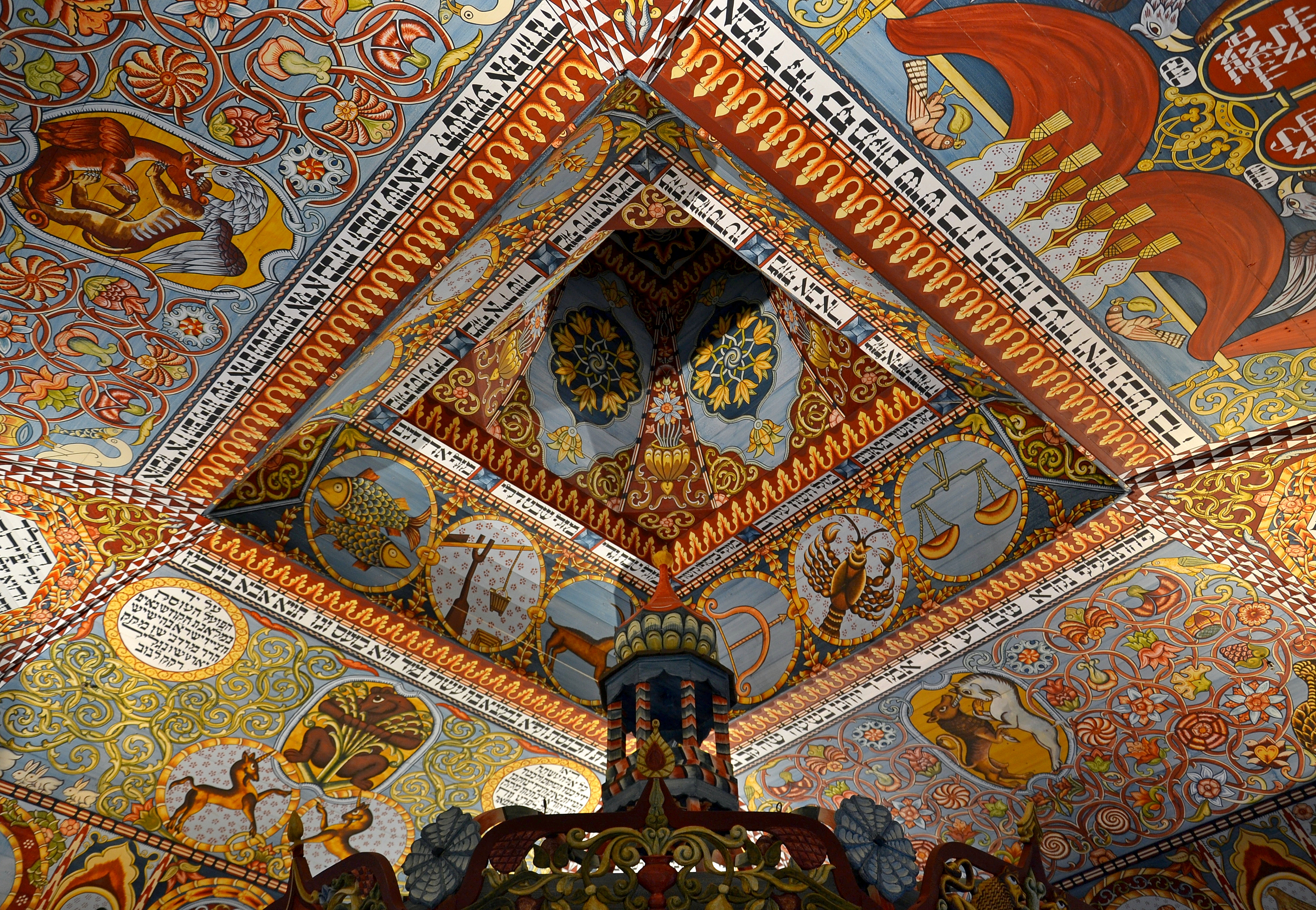 Museum of the History of Polish Jews in Warsaw. Reconstruction of the synagogue in Gwoździec (part)